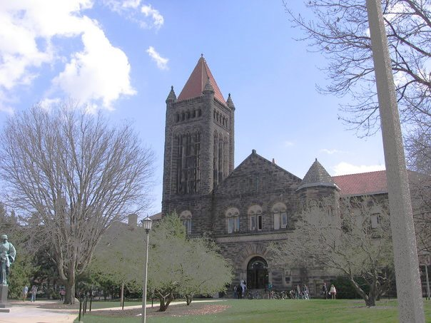 Altgeld Hall on the University of Illinois at Urbana-Champaign campus